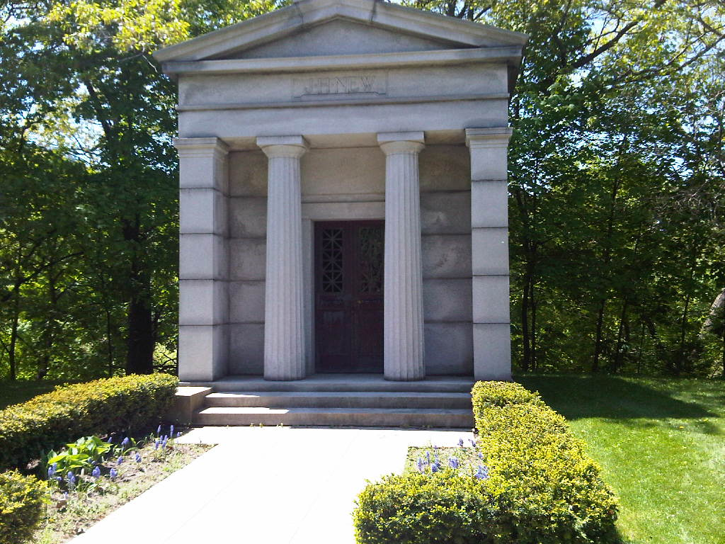 Mausoleum of Jacob Herbert New (1859 - 1913) and family, including Ryland Herbert New (1888 - 1979)